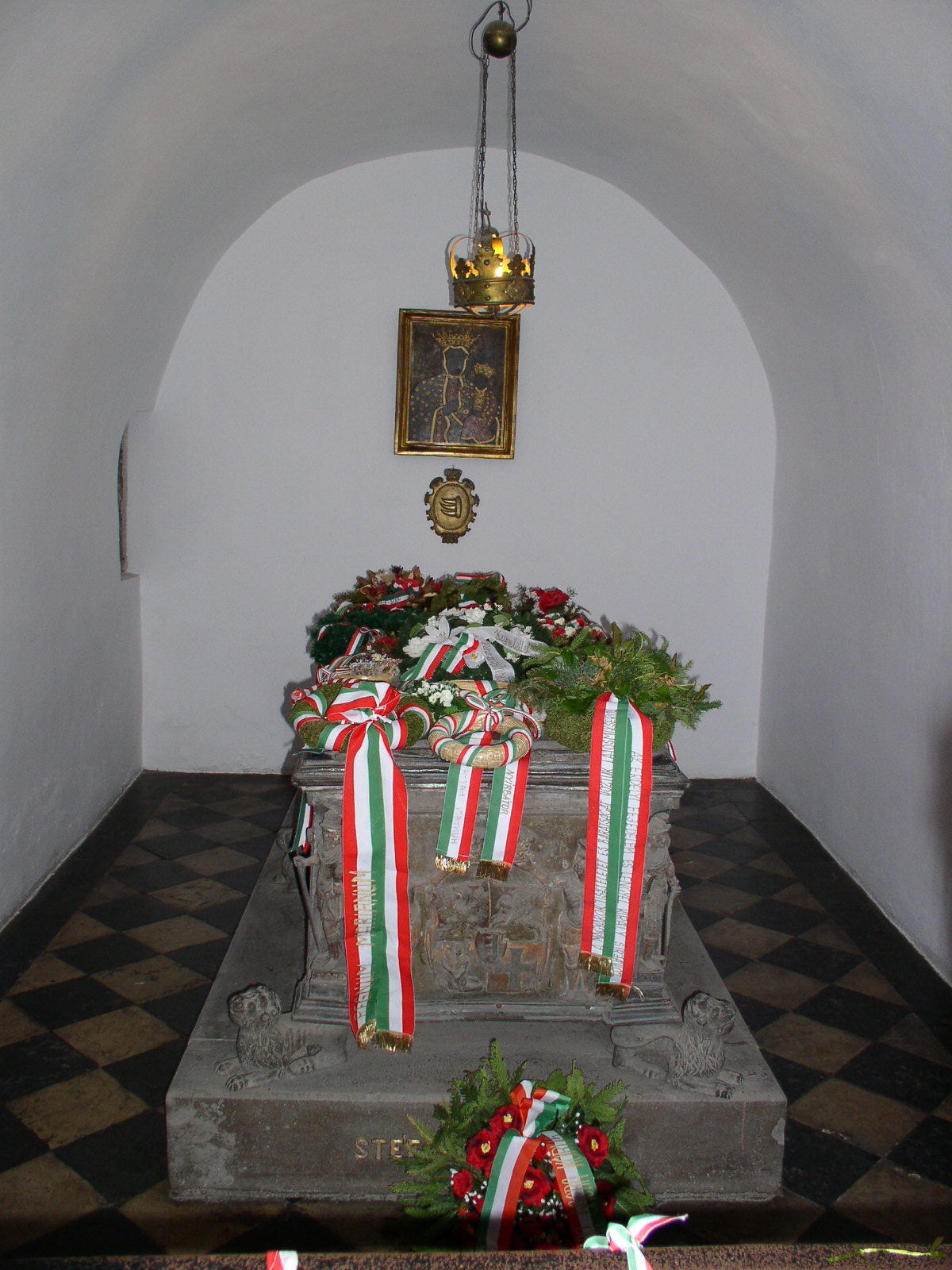 Tomb of Báthory István, Wawel Cathedral, Kraków, Poland